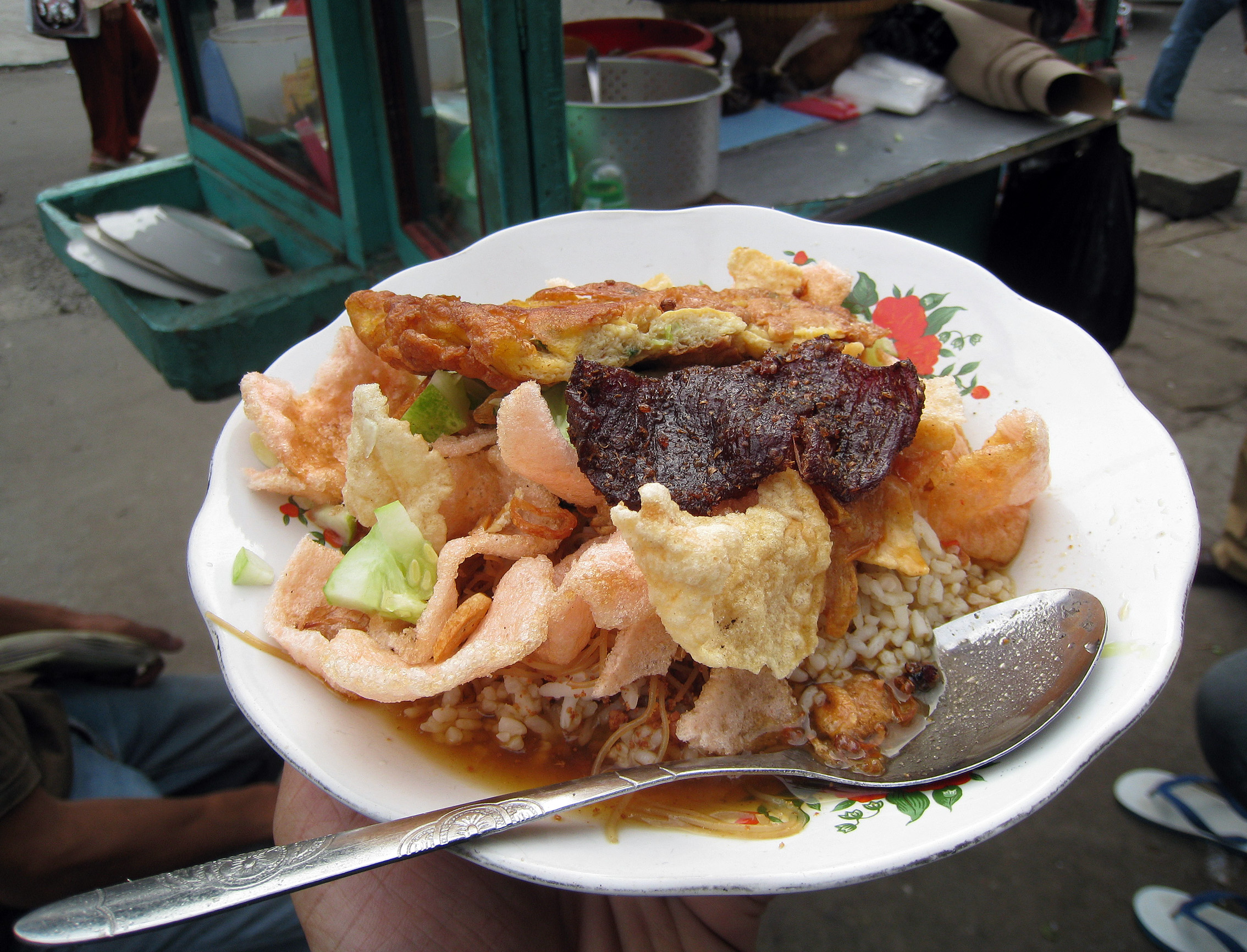 Nasi Ulam Betawi, a specialty of Betawi people of Jakarta, Indonesia. The steamed rice mixed with coconut and peanut granule with kuah semur (sweet soy sauce soup) topped with kerupuk (crackers) and variety of dishes of choice, such as omelette and dendeng (beef jerky).